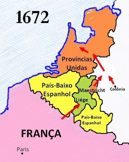 The map shows the military campaign of Louis XIV against Holland in 1672. Vauban, Turenne, Condé.